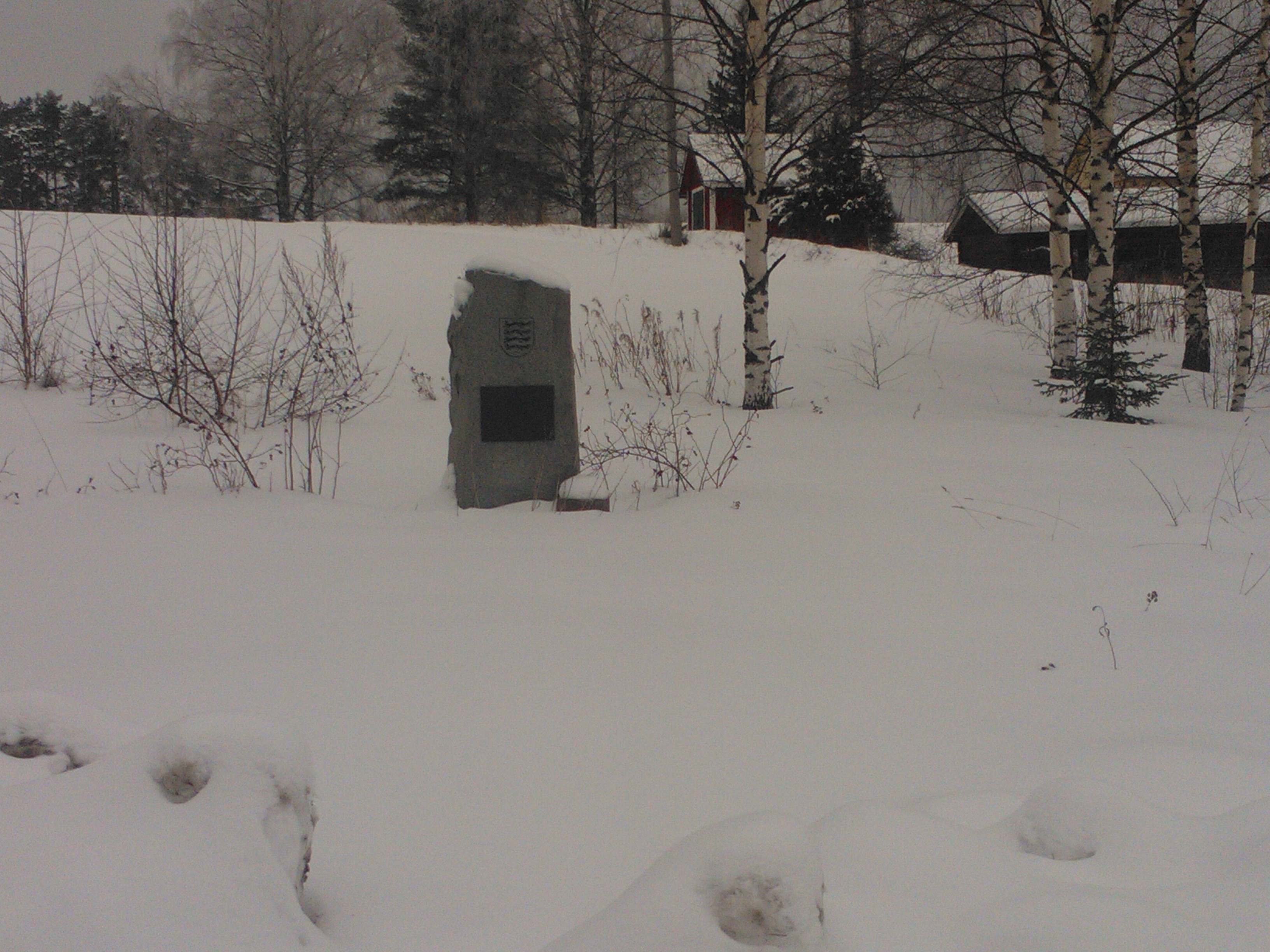 Center of population landmark in Hauho, Finland. The geometric median, also known as Weber point, Fermat–Weber point, or point of minimum aggregate travel.